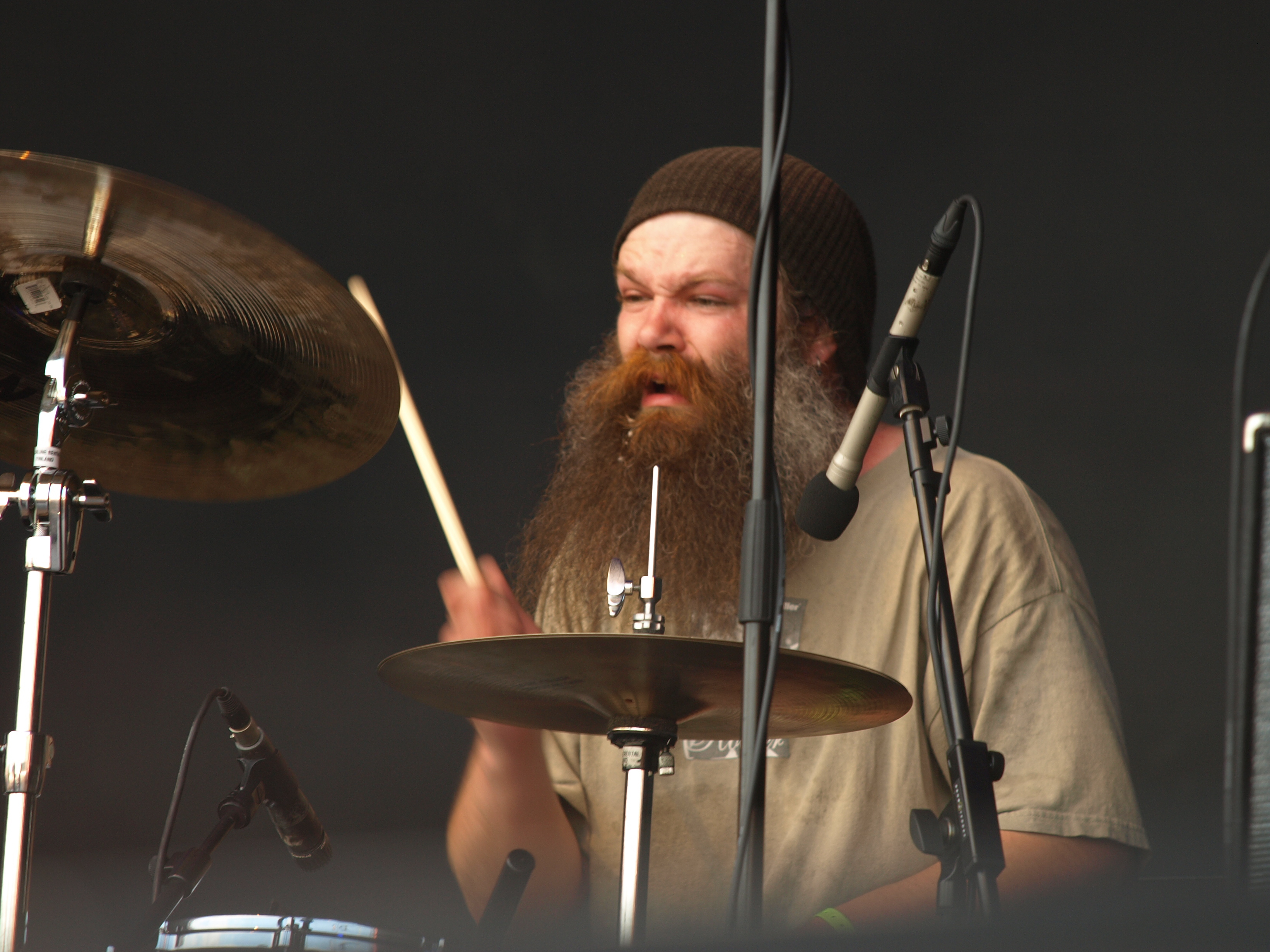 US black metal band Von at Tuska Open Air 2013